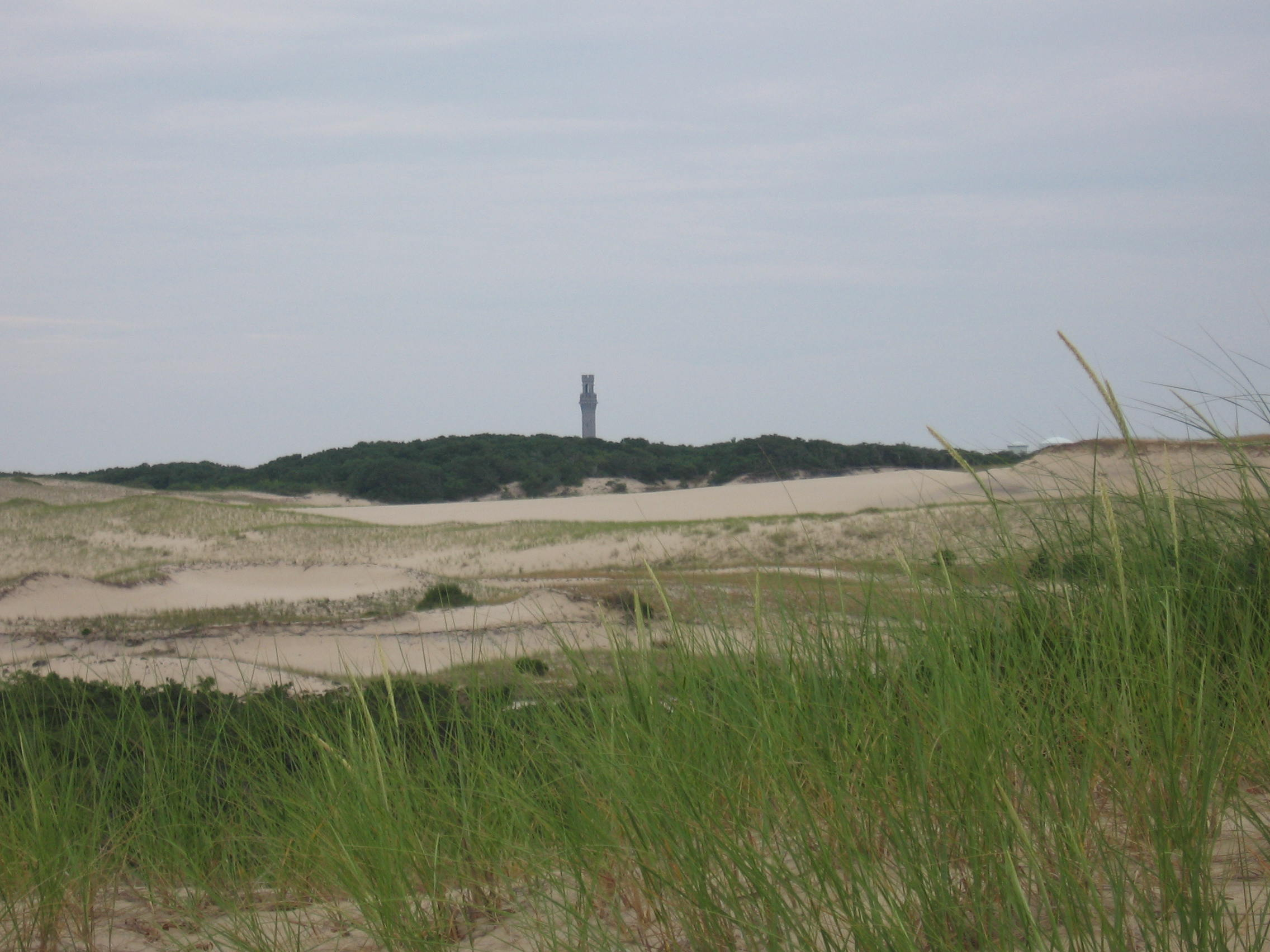 The Provincetown Tower as seen from the Provincetown Sand Dunes in Provincetown, Massachusetts on Cape Cod.